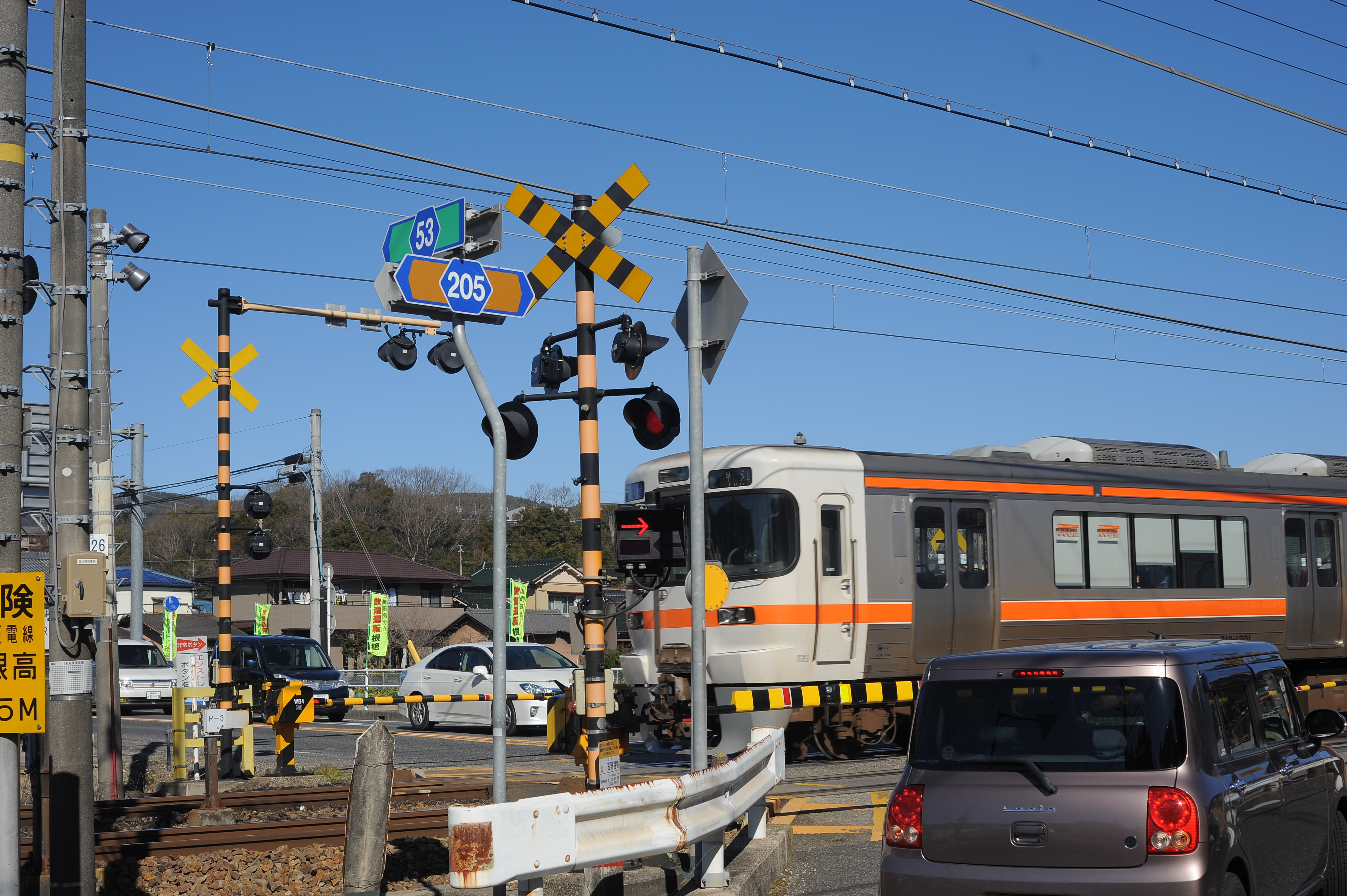 Aichi prefectural Route 53 and 205, kasugai, Aichi